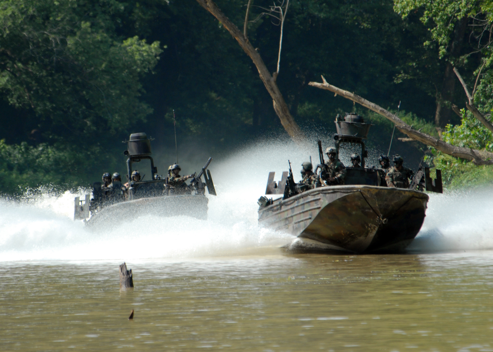 FORT KNOX, Ky. (Aug. 24, 2007) - Two special operations craft riverine (SOC-R) cruise along the Salt River during live fire training. Naval Special Warfare Combatant-craft Crewman (SWCC) from Special Boat Team 22 (SBT-22) employ the SOC-R, which is specifically designed for the clandestine insertion and extraction of Navy SEALs and other special operations forces along shallow waterways and open water environments.